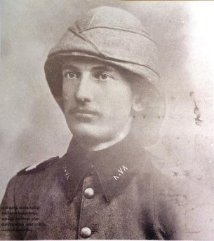 Photograph of Hasnun Galip Turkish: Hasnun Galip fotoğrafı